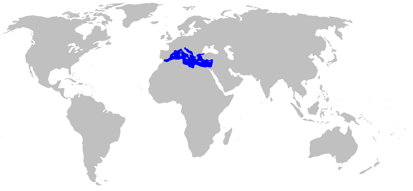 Range of Posidonia oceanica